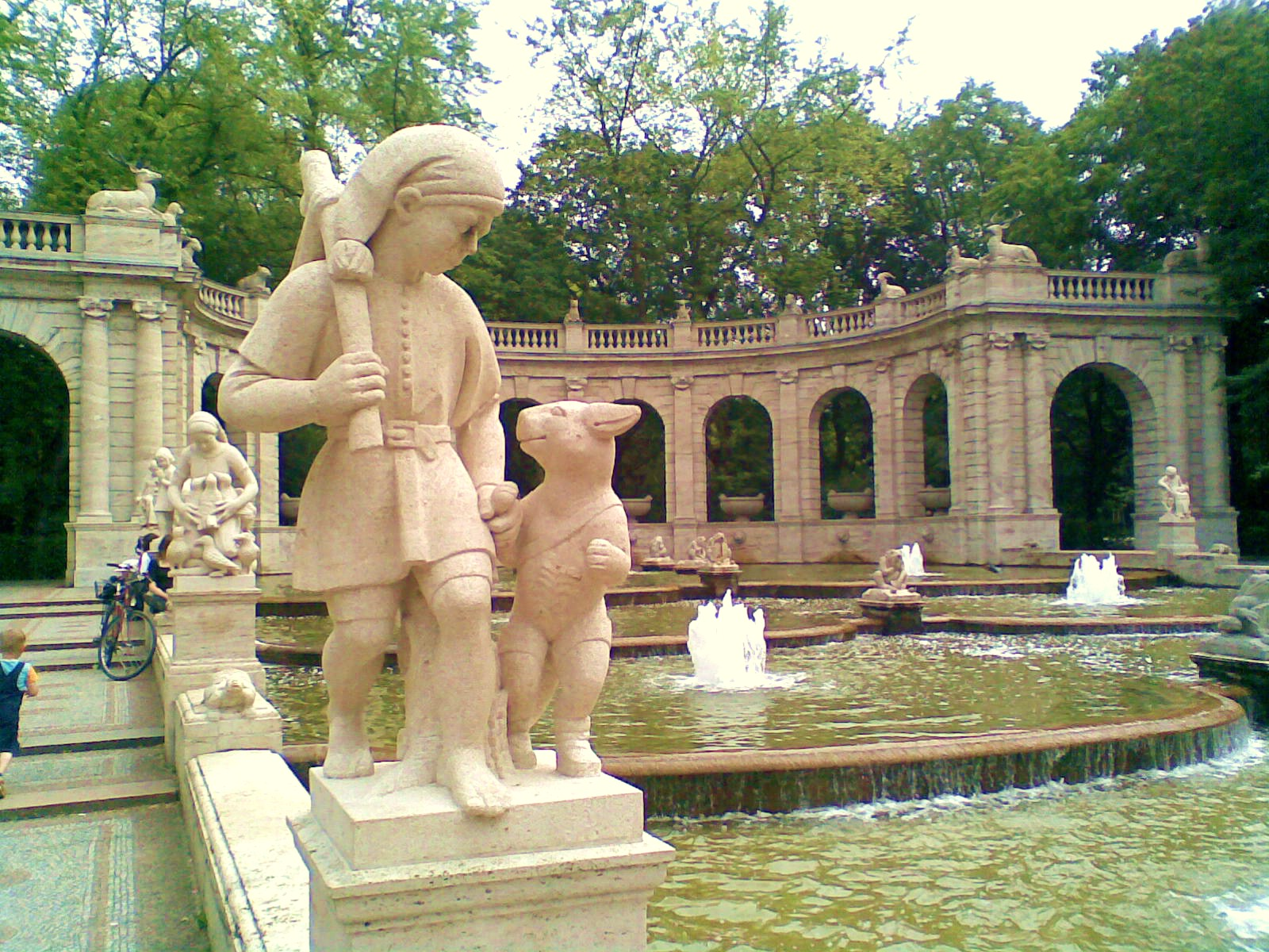 Friedrichshain locality of Berlin: Märchenbrunnen (fairy tale fountain) in the Volkspark Friedrichshain park, sculpture on the Brothers Grimm fairy tale «Sleeping Beauty» by Ignatius Taschner.